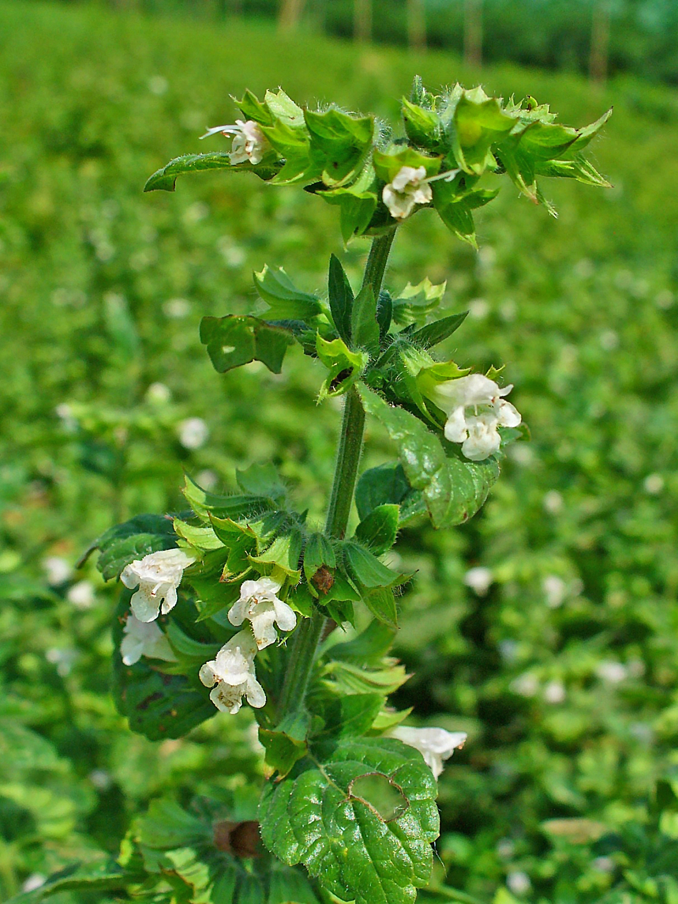 Melissa officinalis, Lamiaceae, Lemon Balm, inflorescences.